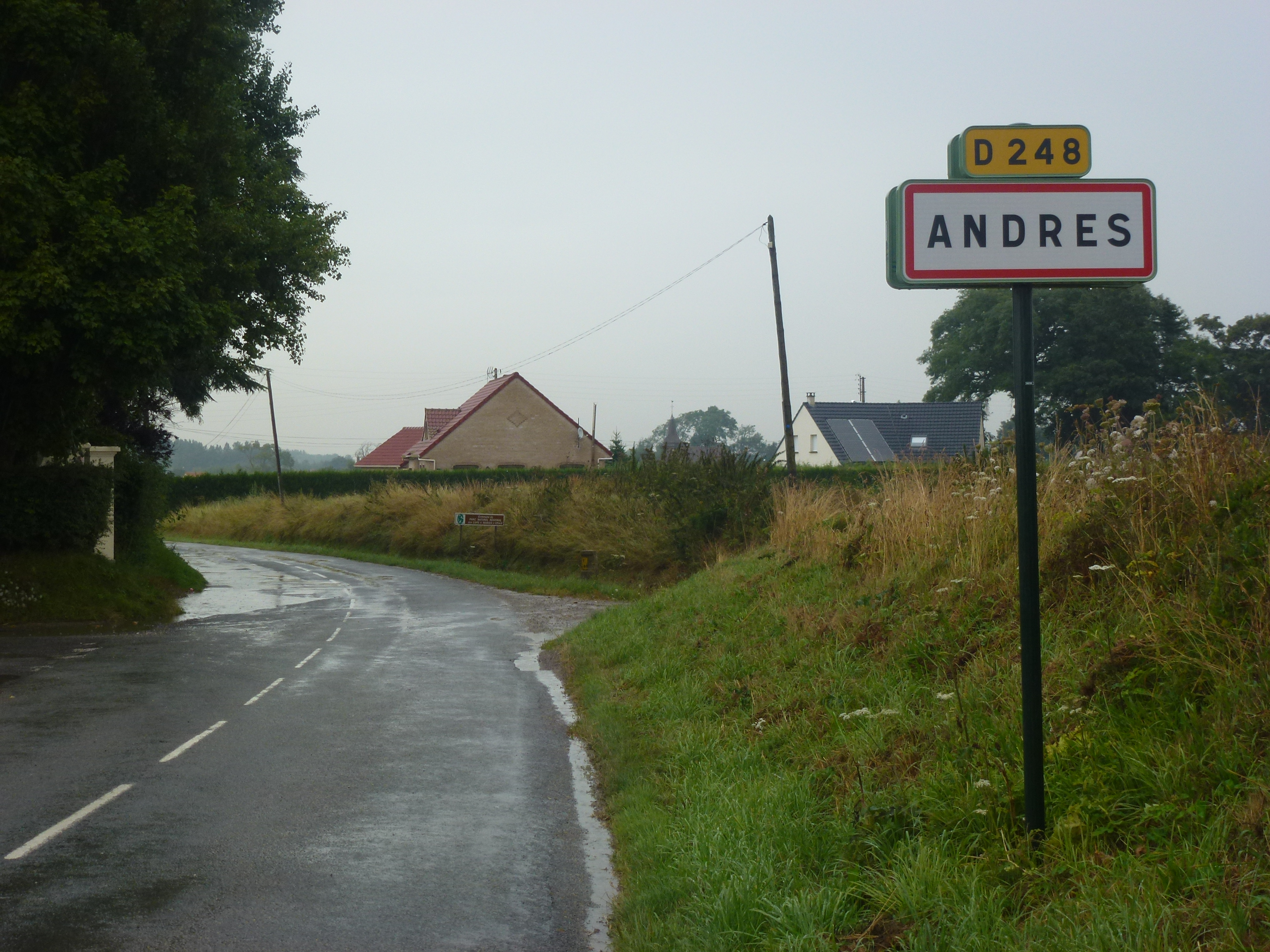 Andres (Pas-de-Calais) city limit sign